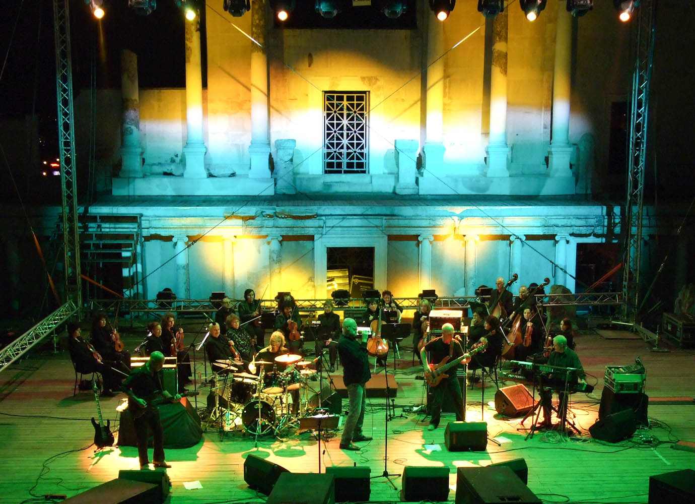 The British rock singer Fish with his band and Plovdiv philharmonic orchestra performing at Sounds of the Ages Fest 2012 at The Ancient Theater in Plovdiv.